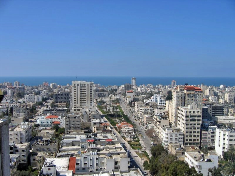 View of Gaza City, Palestinian Territories